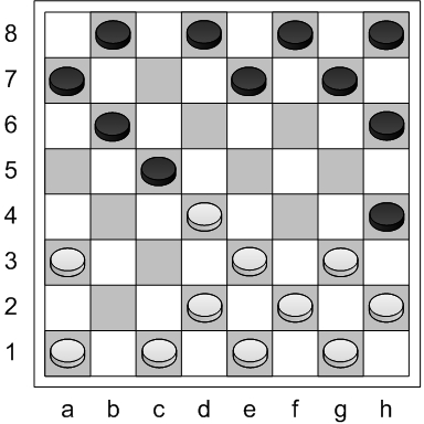 Position in opening Городская партия (Gorodskaya partiya) in russian checkers